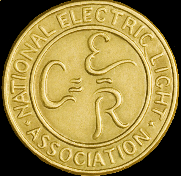 National Electric Light Association Logo from 1929 Doherty Medal